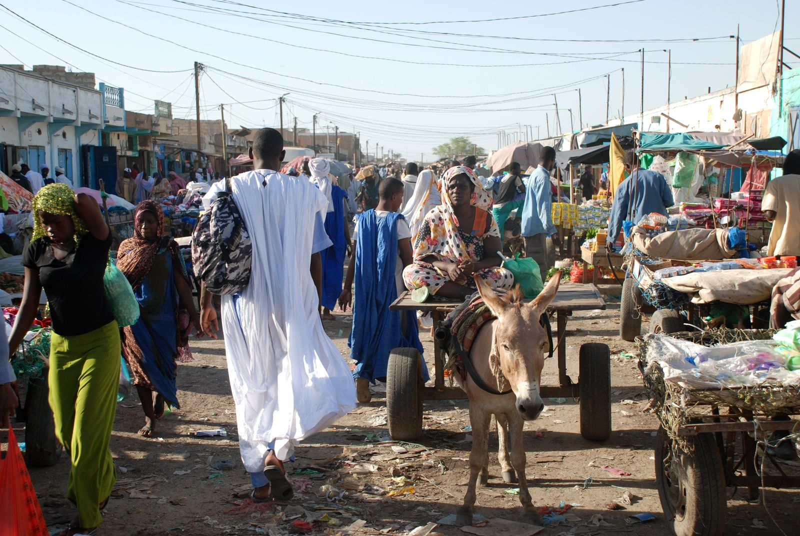 Nouakchott, Mauritania, market in Cinquième Quartier